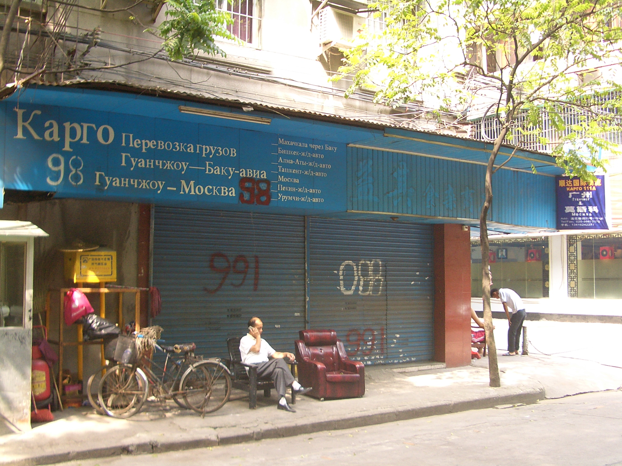 The storefront of a freight forwarding company in Guangzhou, near the district of wholesale garment stores and markets (just south of the main railway station). Signs in Russian advertise destinations in Russia and Azerbaijan